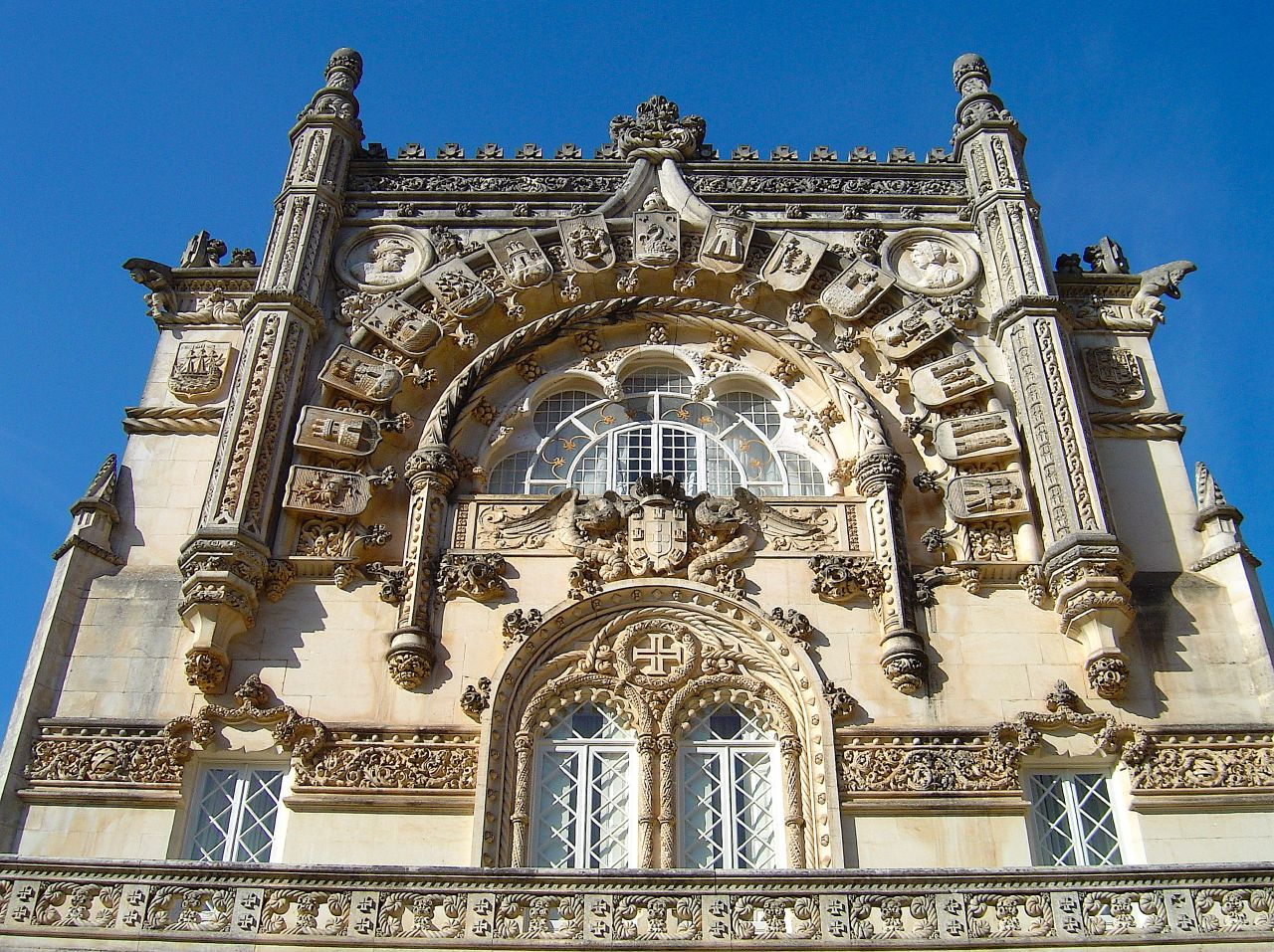 Hotel construido em estilo neo-manuelino. See where this picture was taken. [?]